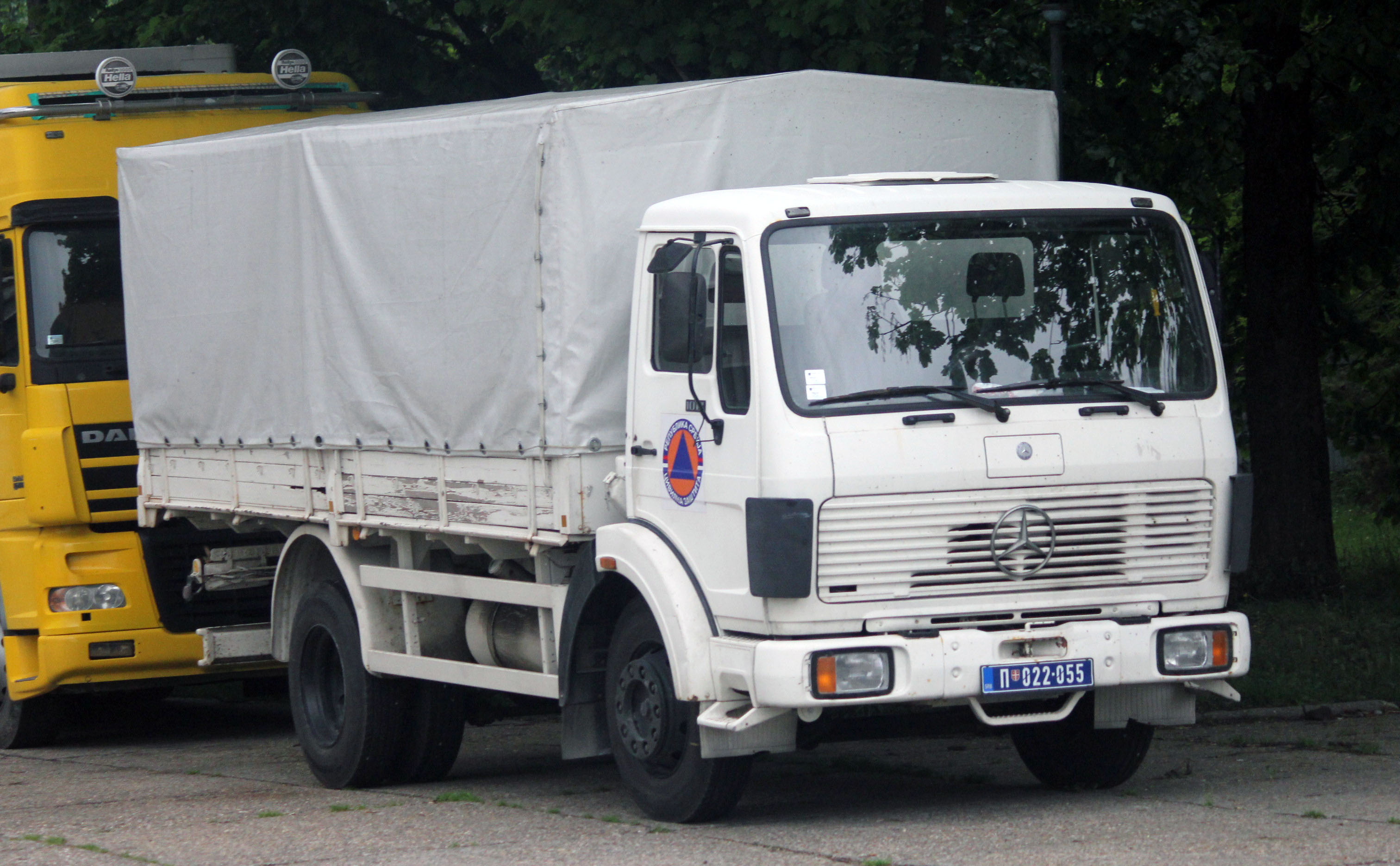 Mercedes Benz NG 1017 truck of Serbian Civil defense.